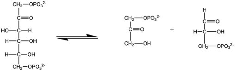 Linkage specificity